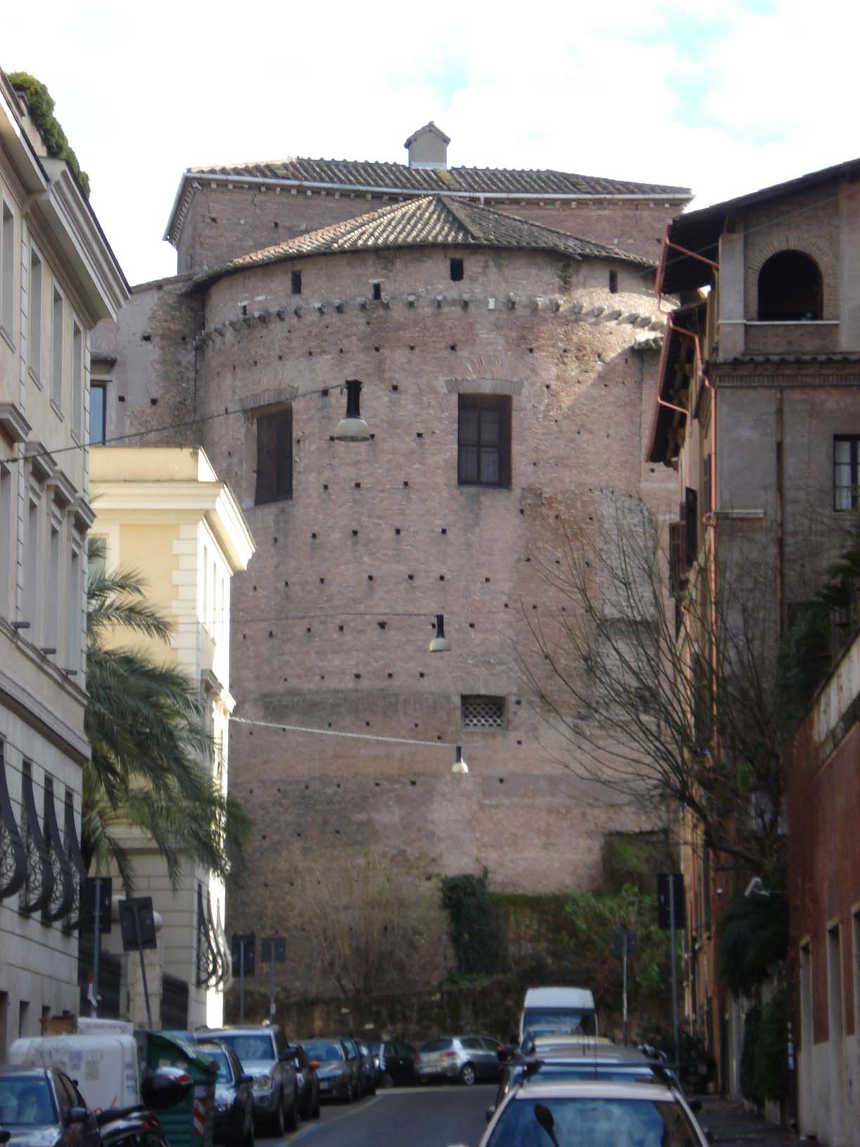 Apse - sight from via Capo d'Africa